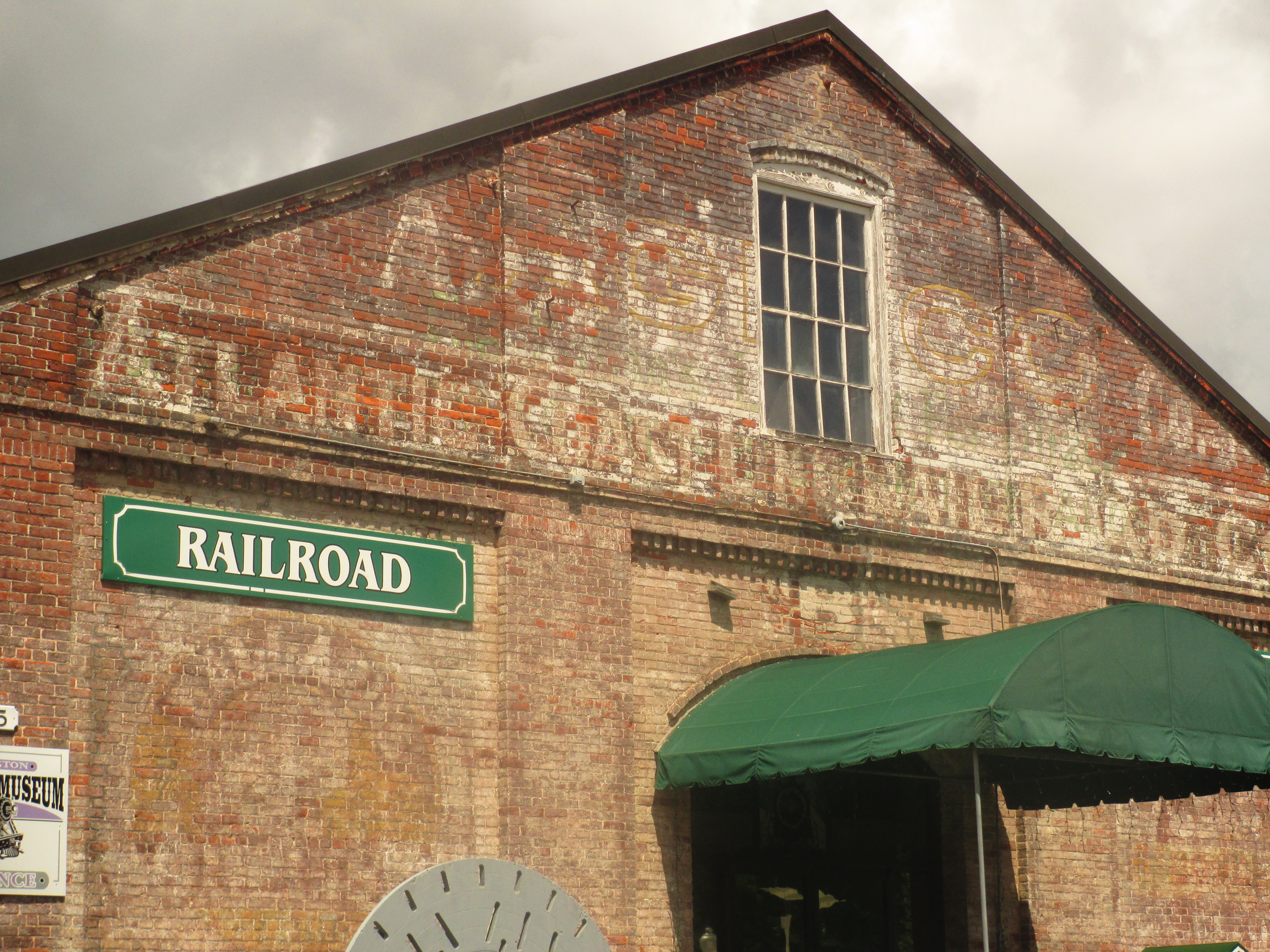 I took photo with Canon camera of Railroad Museum in Wilmington, NC.